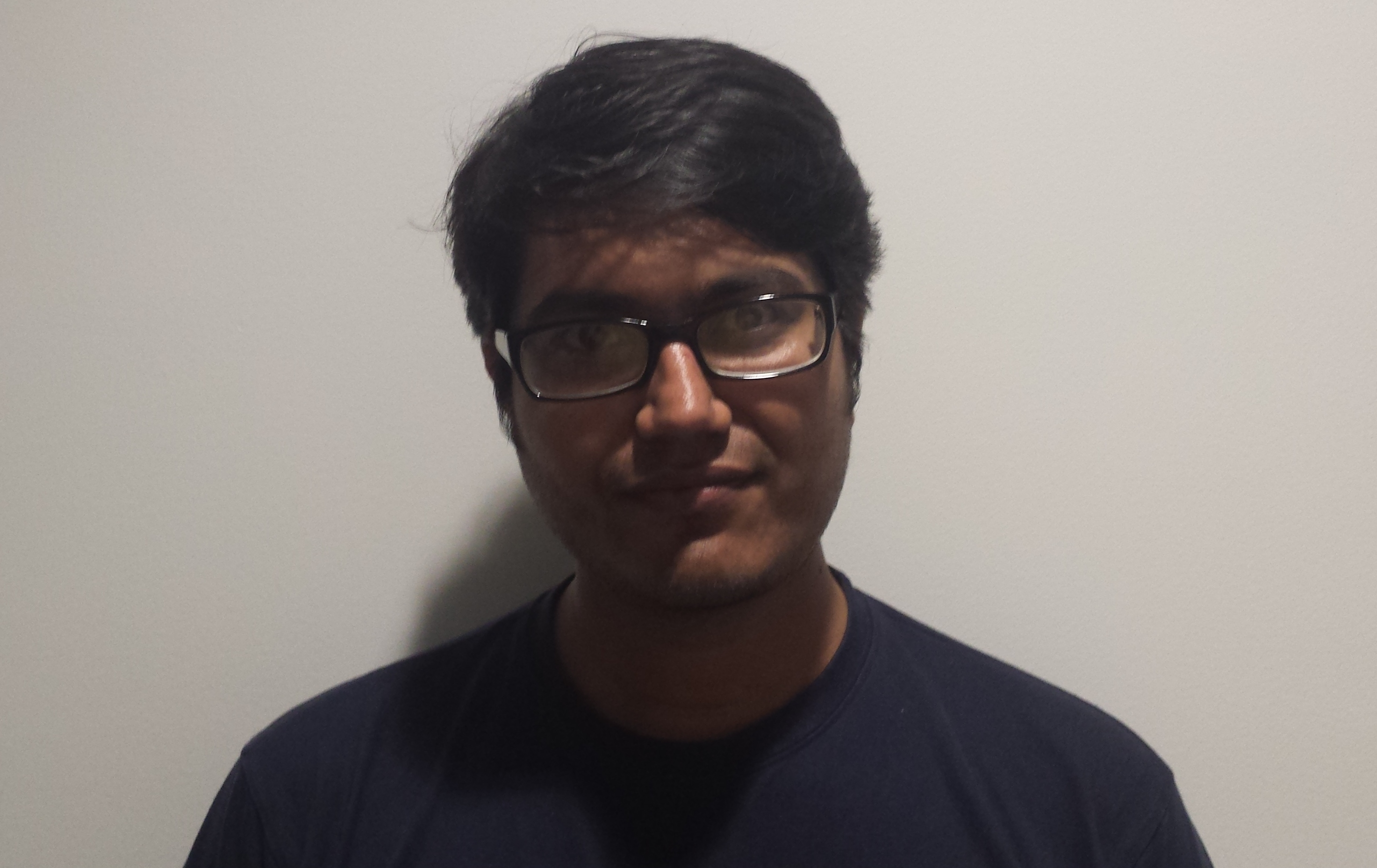 Bangladeshi atheist blogger Asif Mohiuddin at the 2016 European Humanist Youth Days in Utrecht.